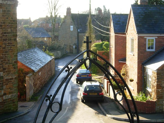 Pattishall